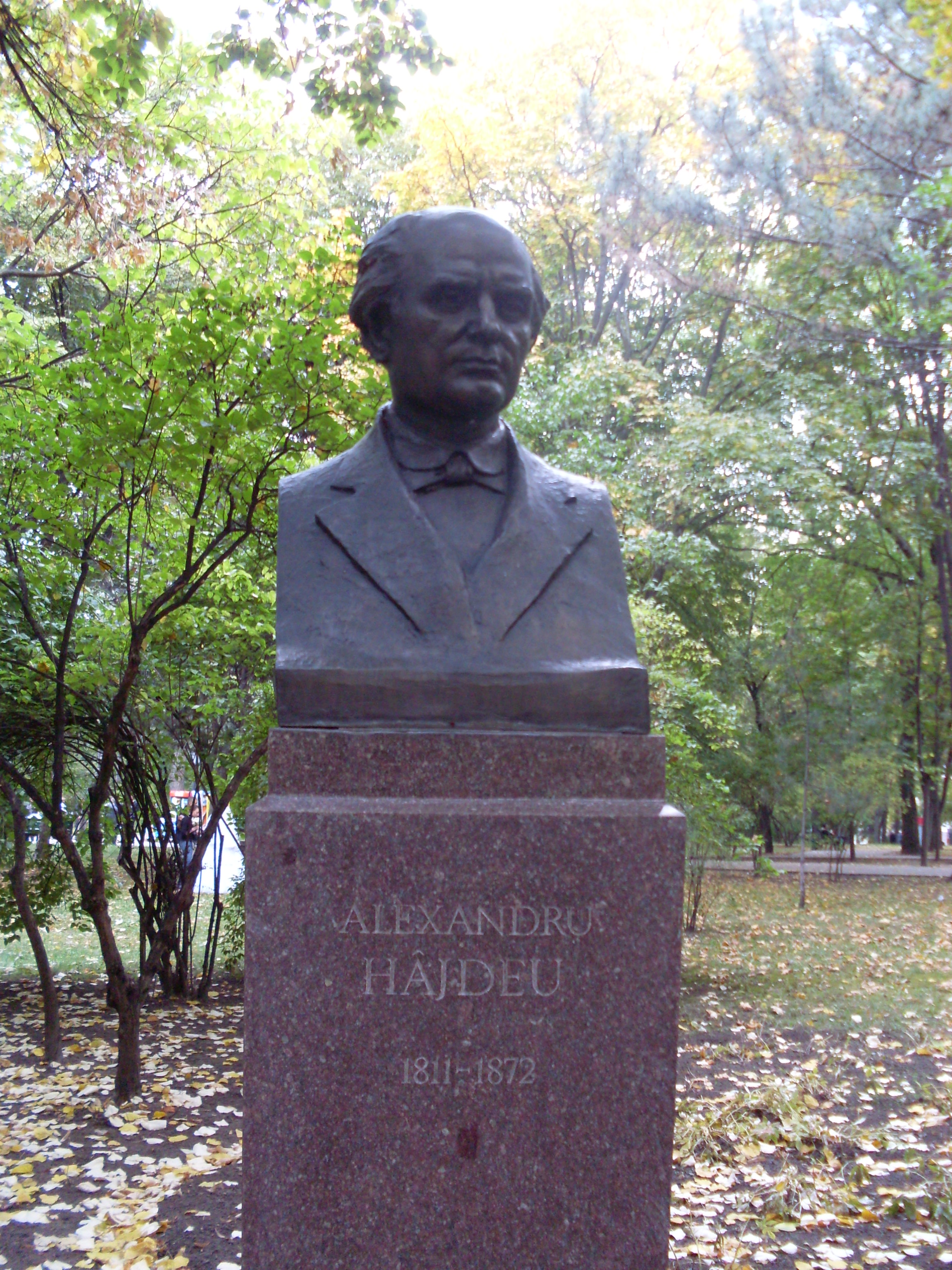 Bust of Alexandru Hâjdeu by Vladislav Krakoveak (1957), in the Alley of Classics, Chişinău.